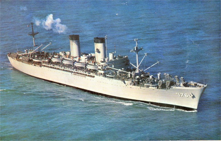 USS General J. C. Breckinridge (T-AP 176) underway, date and location unknown.